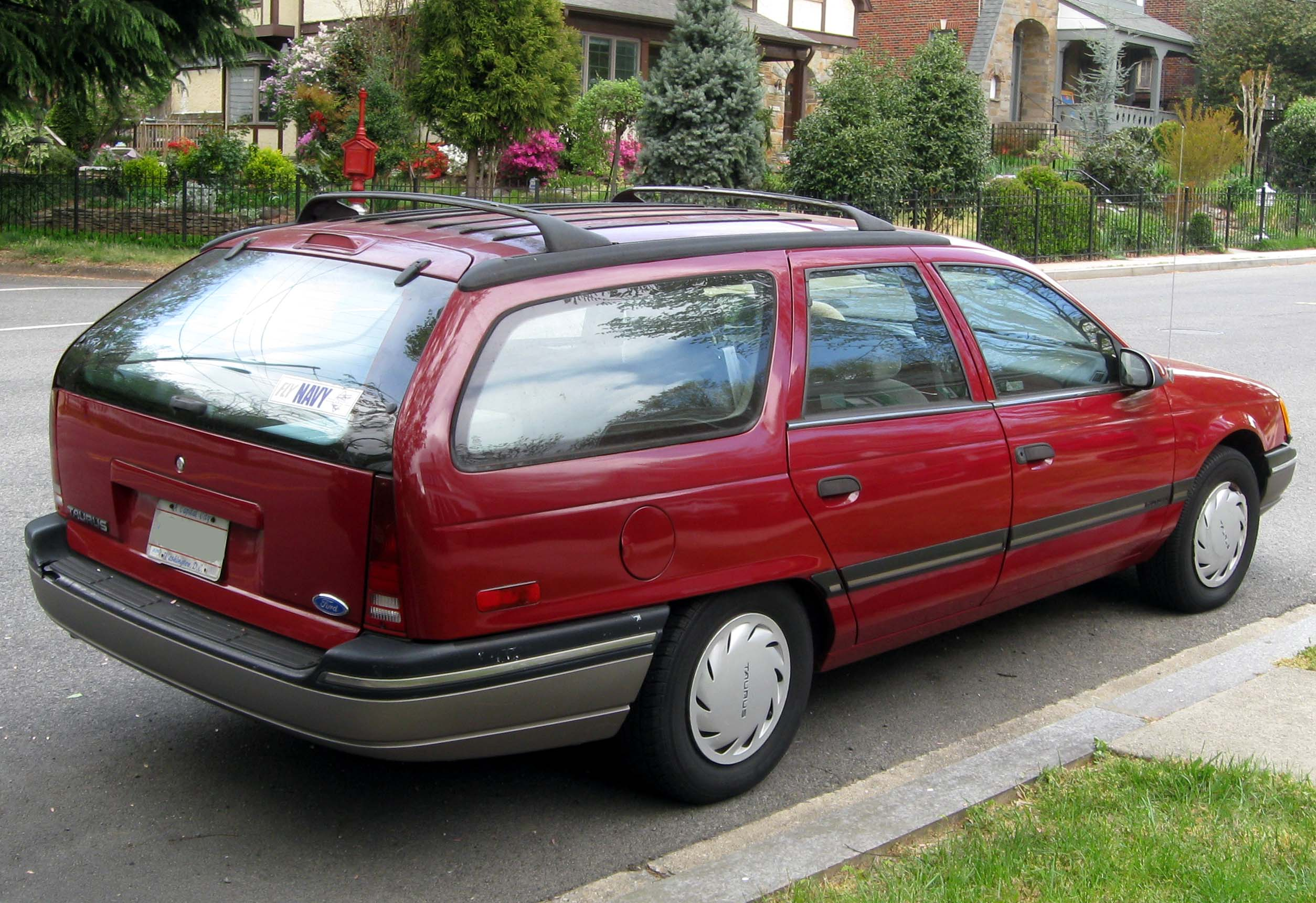 Ford Taurus photographed in Washington, D.C., USA.